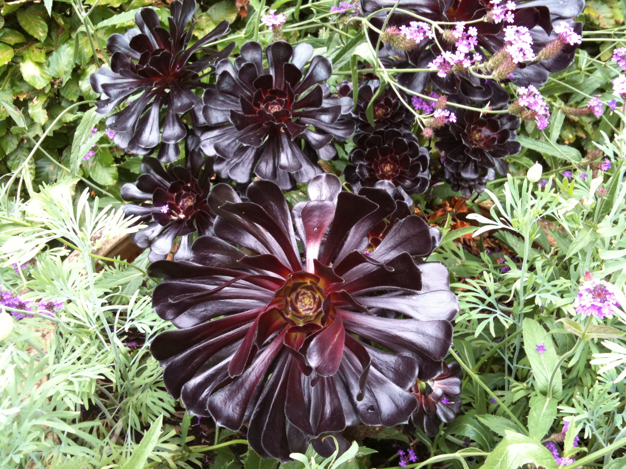 like a cross between a flower and a fungus, really thick waxy petals.